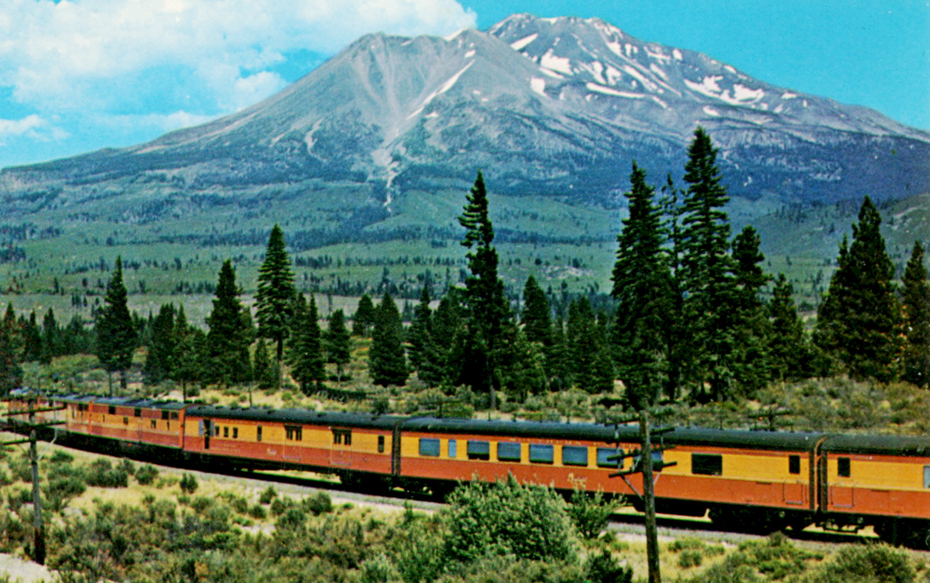 Photo of the Southern Pacific "Shasta Daylight" as it circles Mount Shasta.